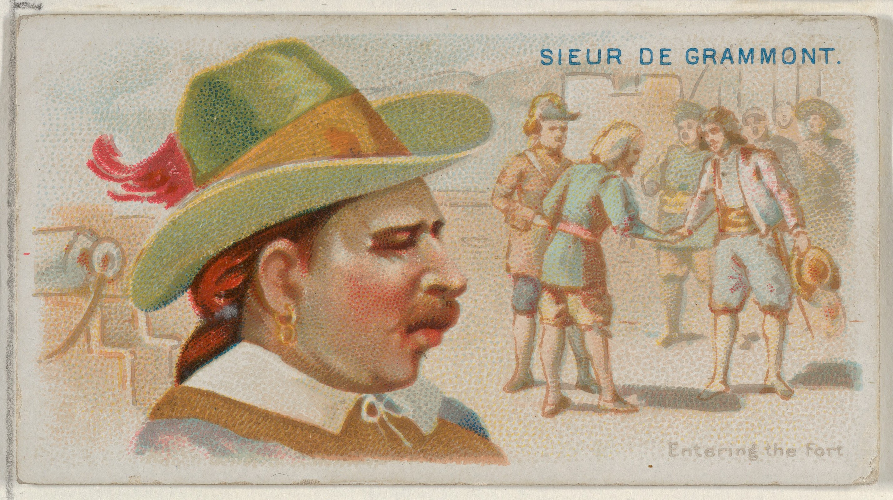 Print; Prints